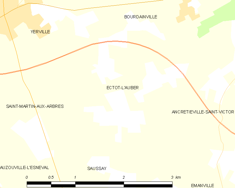 Map of French municipality Ectot-l'Auber